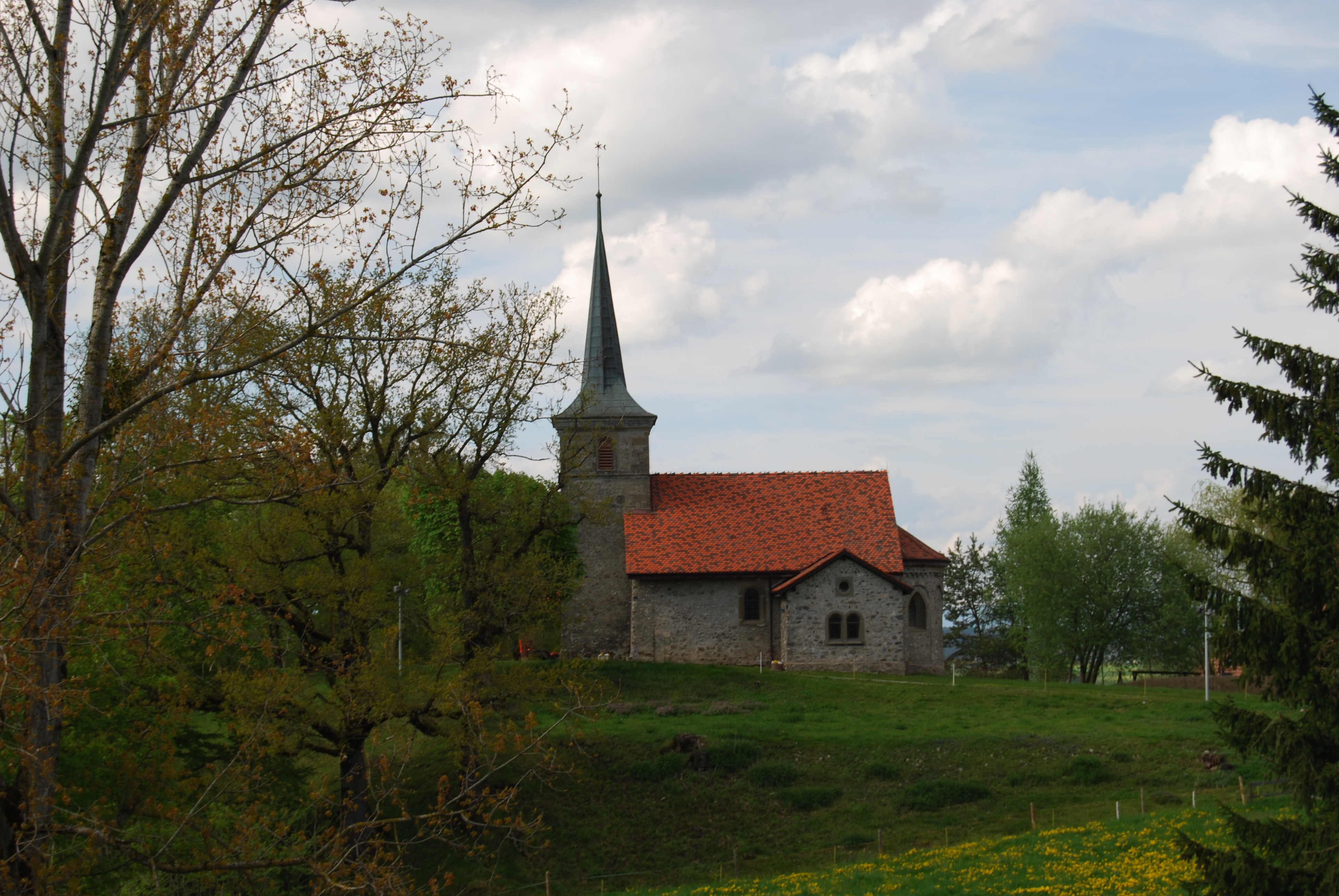 Chapel Rueyres-Saint-Laurent, municipality Le Glèbe, canton of Fribourg, Switzerland